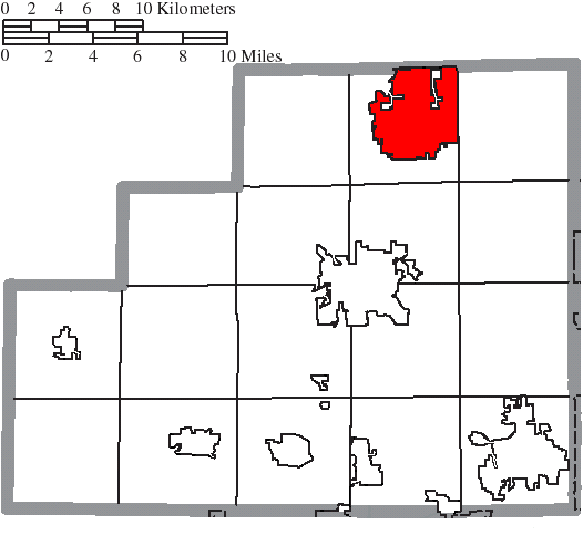 Map of the municipal and township boundaries of Medina County, Ohio, United States, as of the 2000 census, with the location of the city of Brunswick highlighted. Township borders are shown only in unincorporated areas in order to differentiate incorporated and unincorporated areas more clearly.